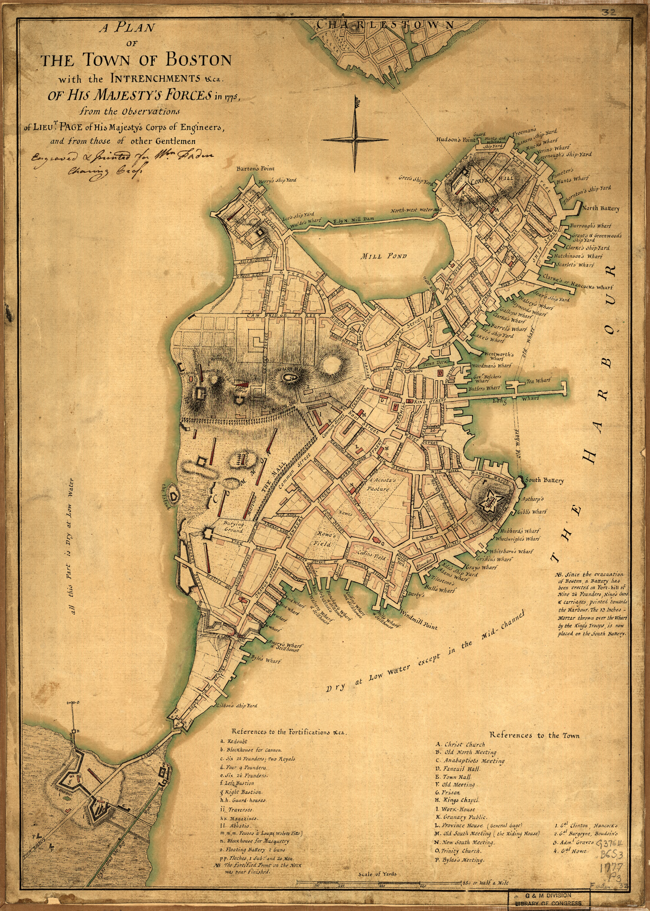 "A plan of the town of Boston with the intrenchments &ca. of His Majesty's forces in 1775, from the observations of Lieut. Page of His Majesty's Corps of Engineers, and from those of other gentlemen."